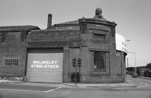 Atlas Forge, Bridgeman Street, Bolton Thomas Walmsley - the last company to roll wrought iron using steam driven hand mills. They had stopped rolling by now and had become steel stockholders. The rolling mill area was now looking very ramshackle.